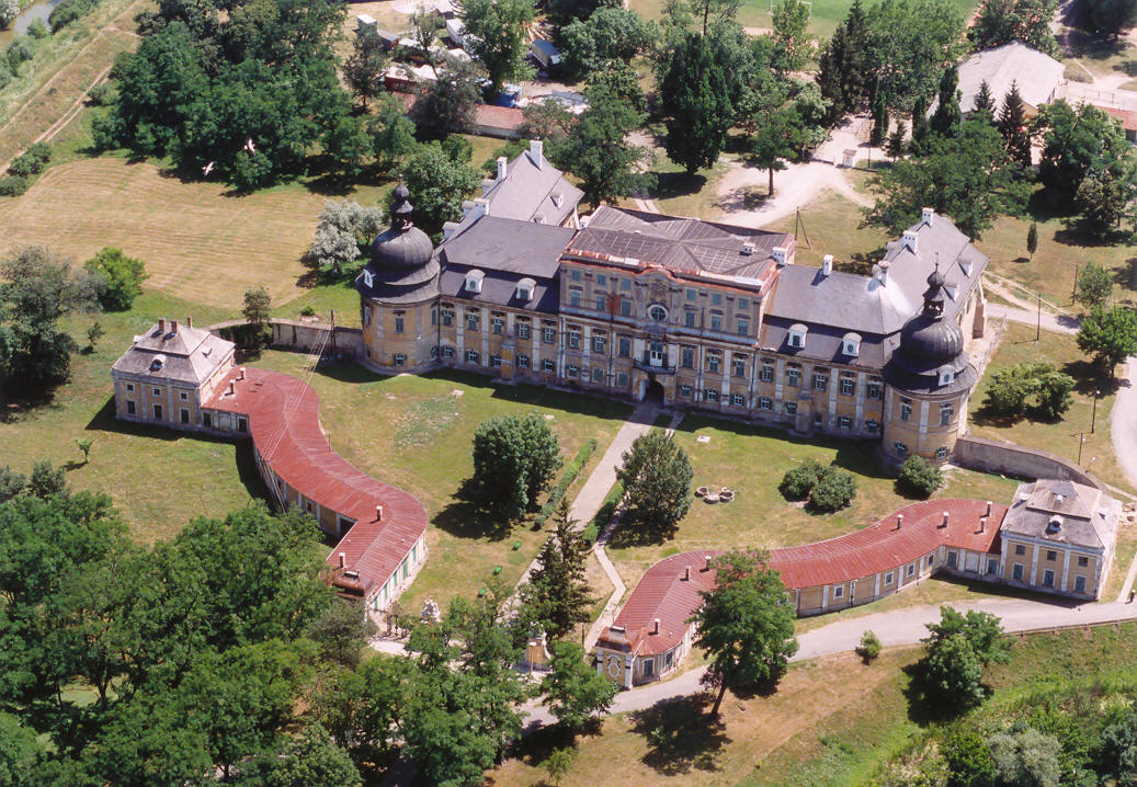 Palace - Edelény - Hungary - Europe